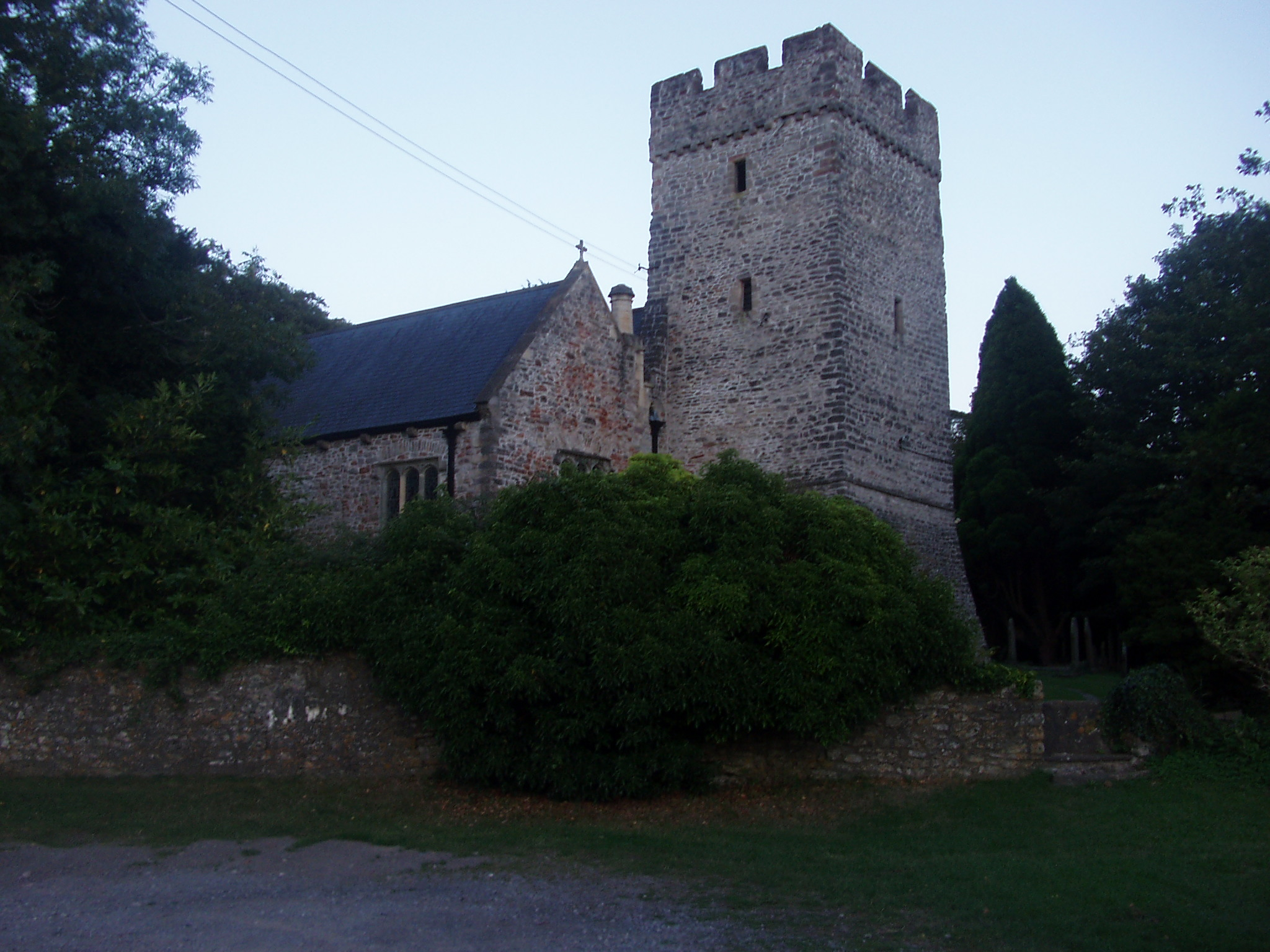 St Andrews Major church, Vale of Glamorgan, south Wales, UK